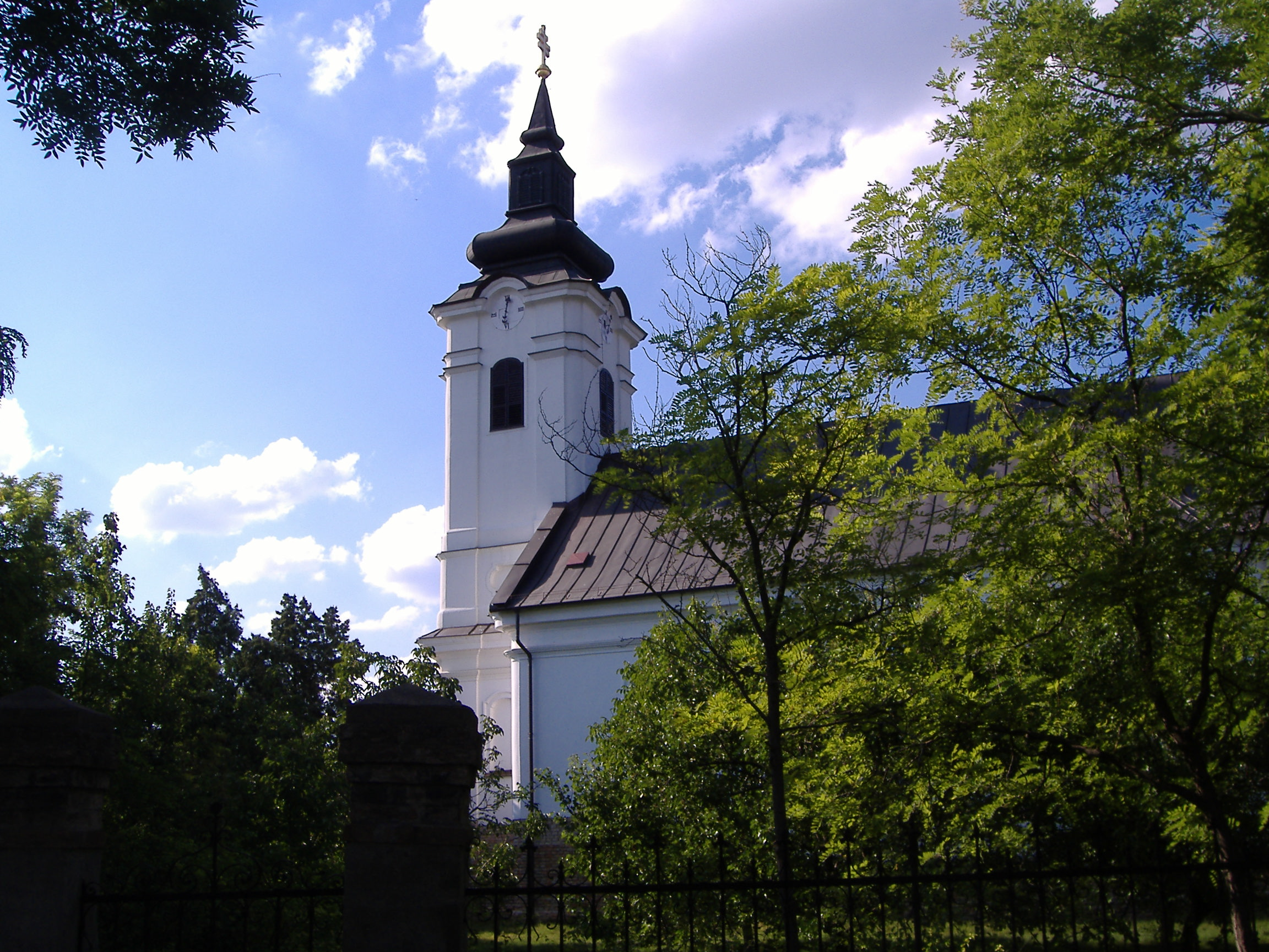 Side view of the greek catholic church in Makó, Hungary.